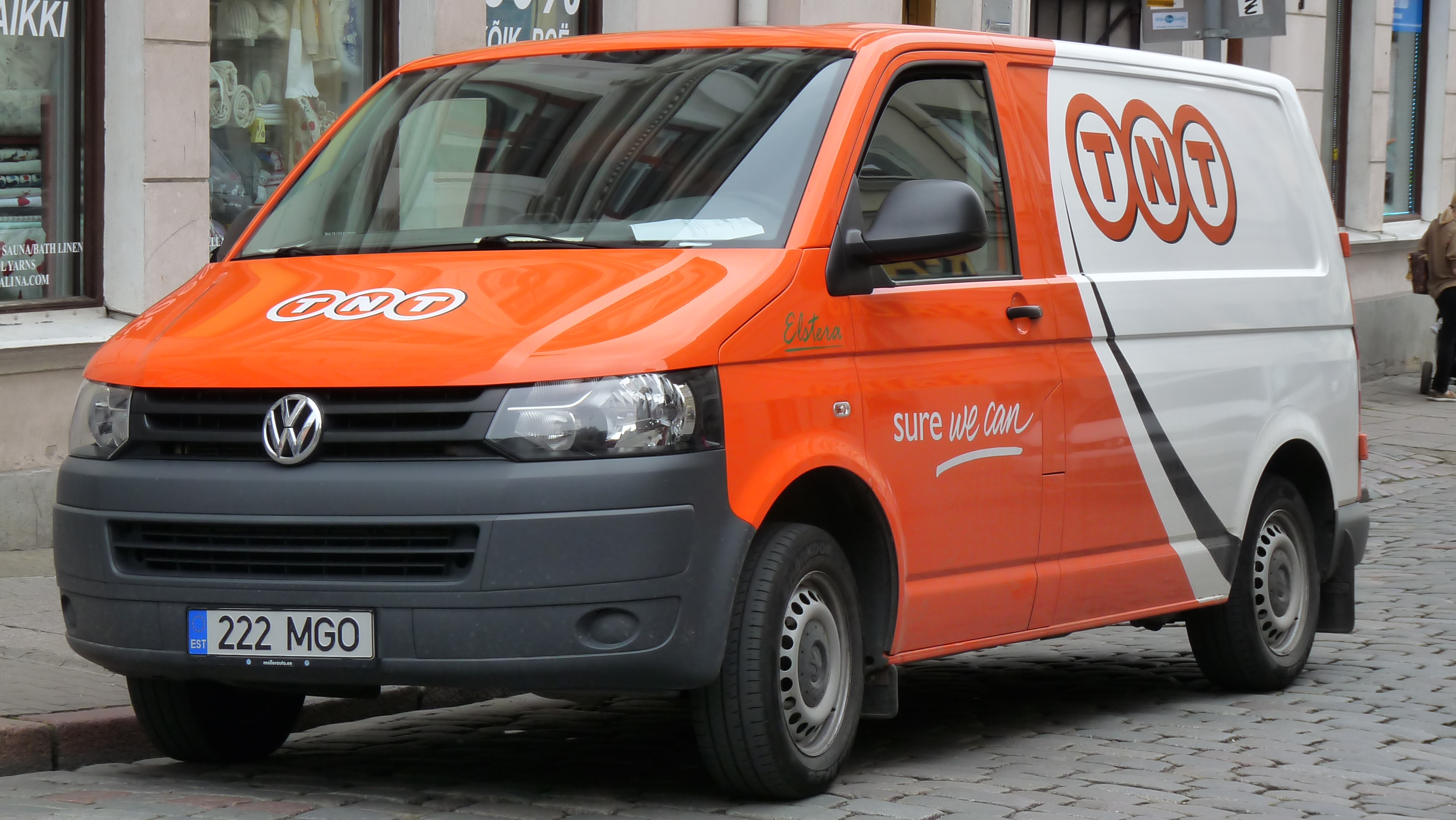 Volkswagen vehicle in Tallinn, Estonia